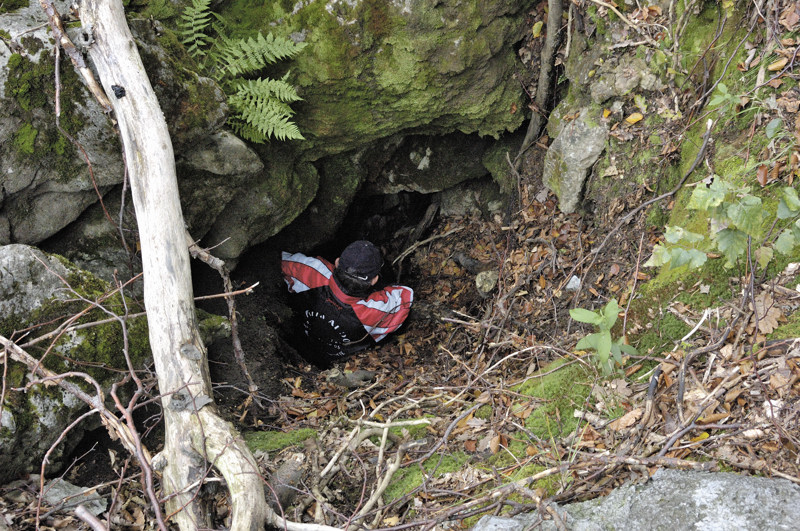 Karst sinkhole (cave) Kržľa